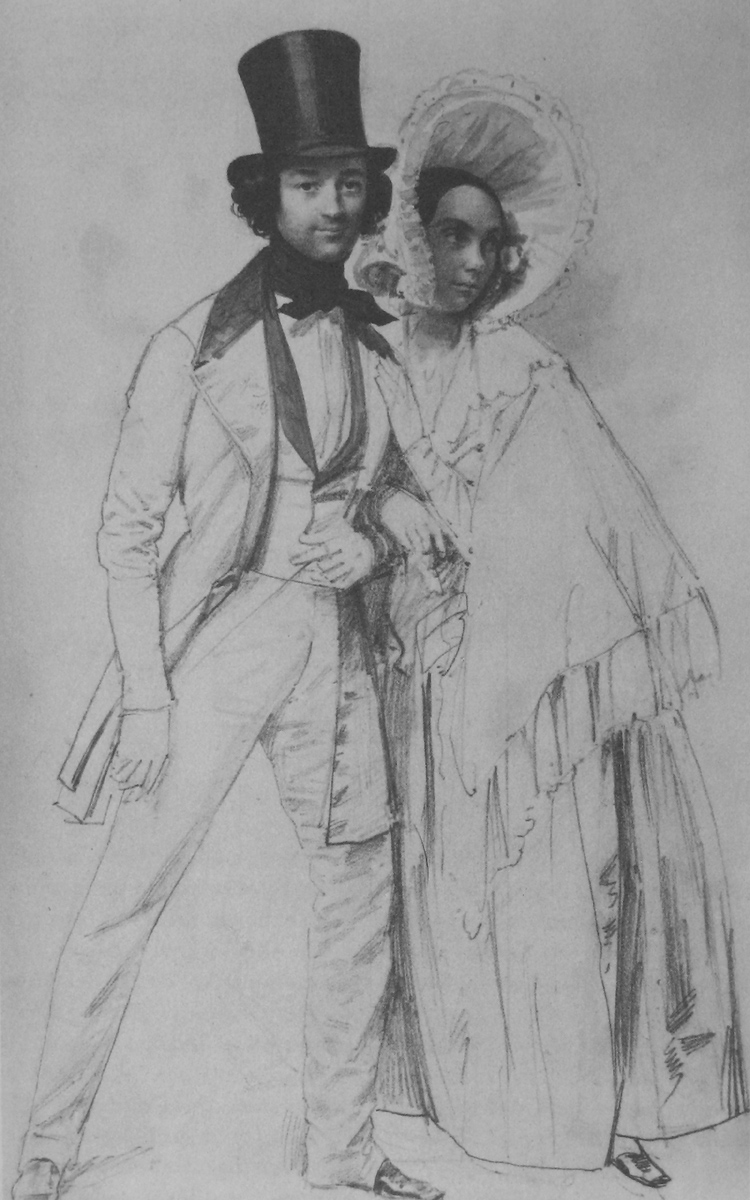 Portrait of Amalie and Paul Taglioni